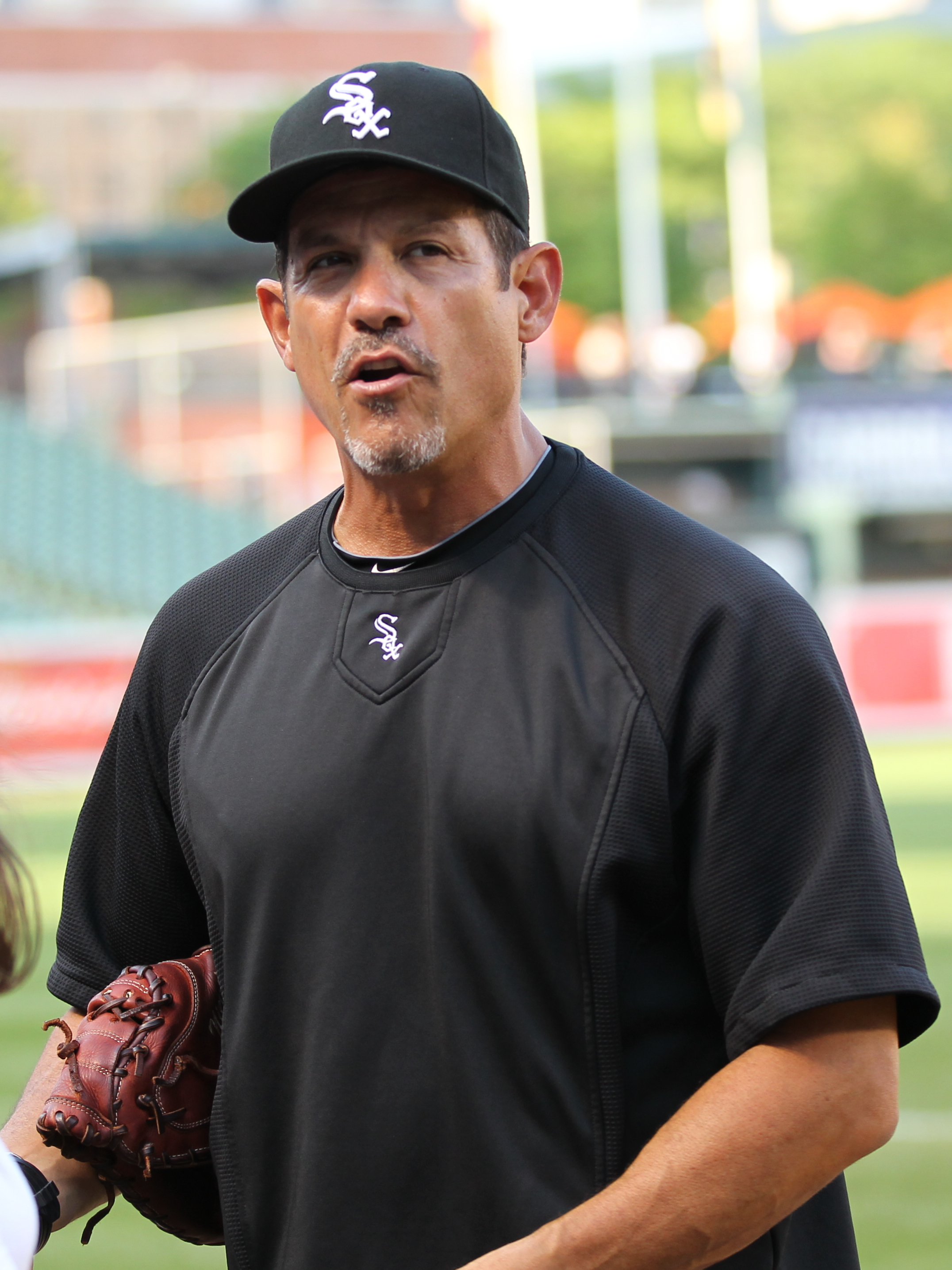 Chicago White Sox bullpen coach Juan Nieves.